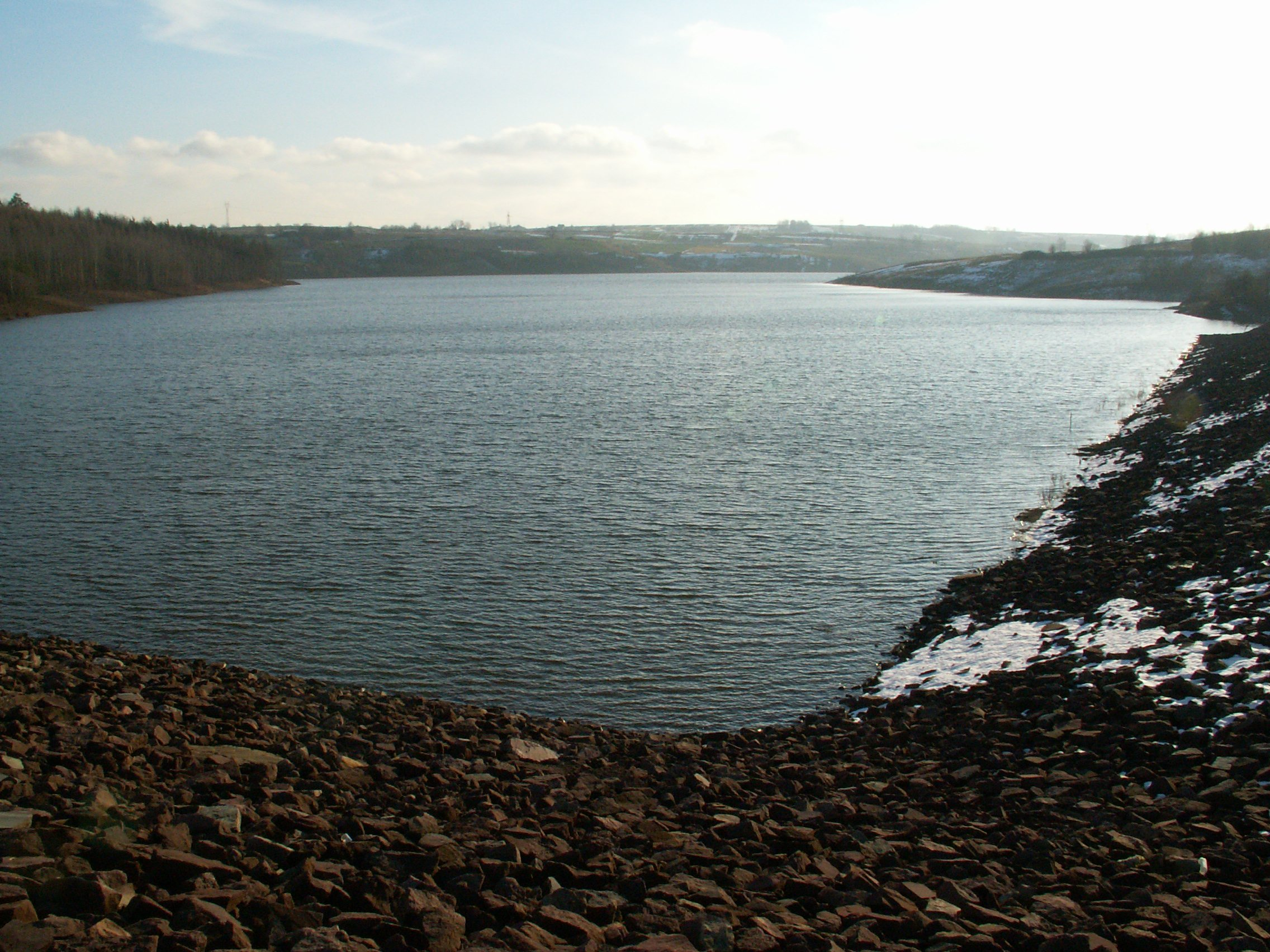 Wióry reservoir in Poland